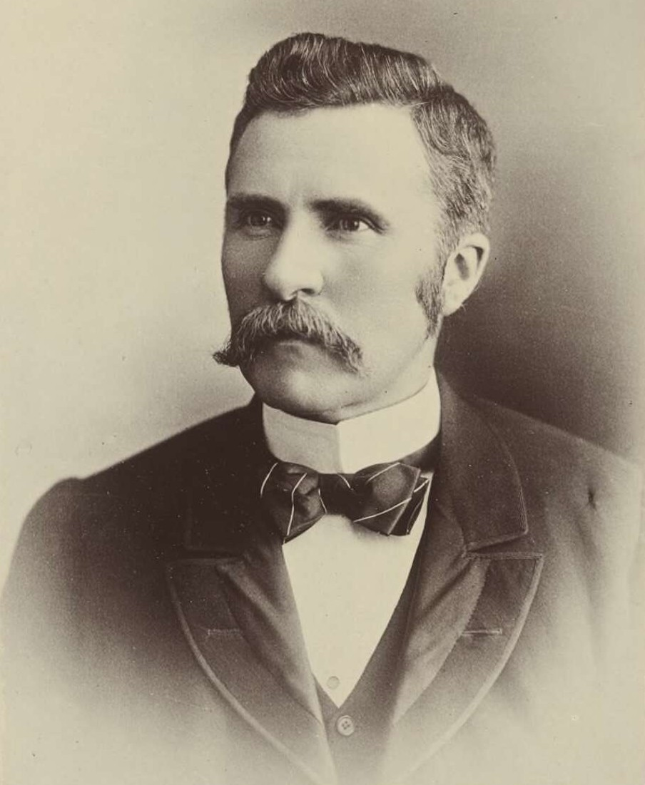 John Quick From the 1898 Australasian Federal Convention Album.